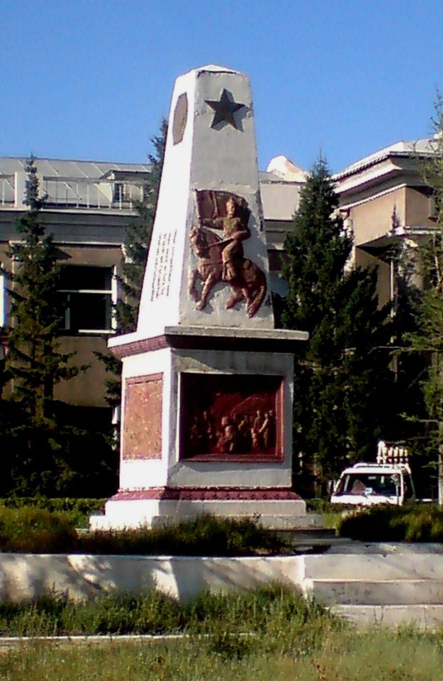 The first monument dedicated to D. Sükhbaatar, created by K. Pomerantsev (now neighbouring the Ministry of Defense of Mongolia, Ulan-Bator)